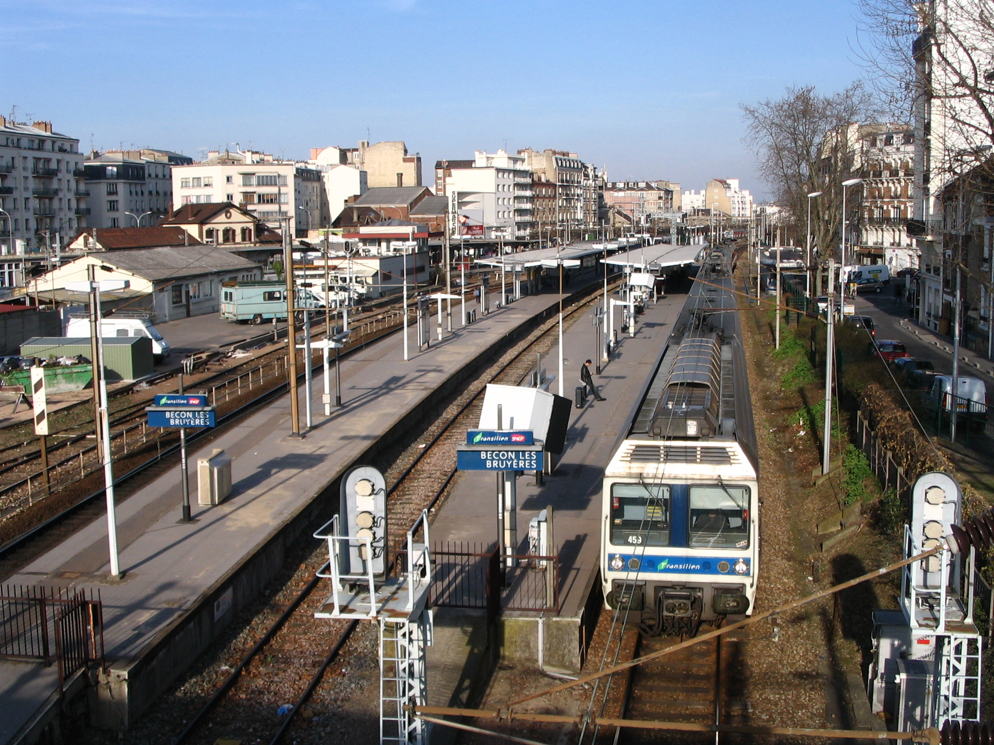 The commuter train station of Bécon-les-Bruyères, in Hauts-de-Seine, France.